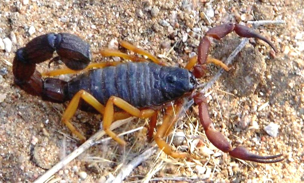 A male Black hairy thick-tailed scorpion near Usakos, Namibia. The species is the largest (measuring up to 18cm) and only diurnal Buthid in the world.